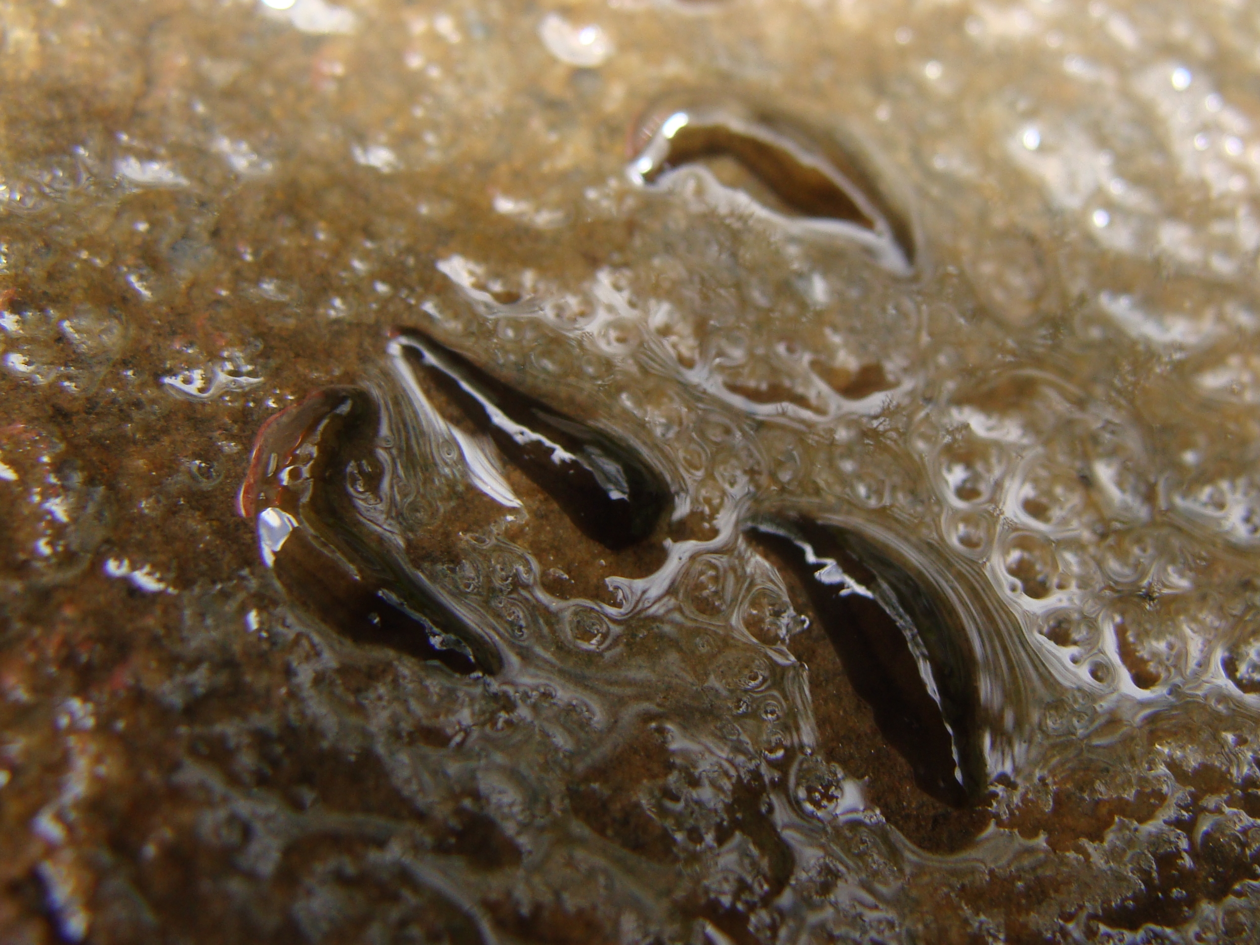 Dugesia cretica under a stone of a stream of Crete, Greece.